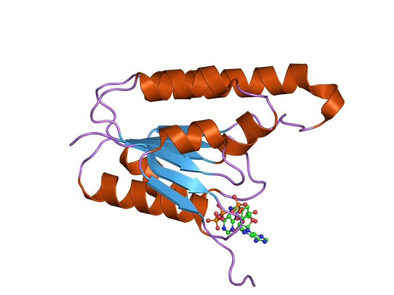 Cartoon representation of the molecular structure of protein registered with 1g5t code.